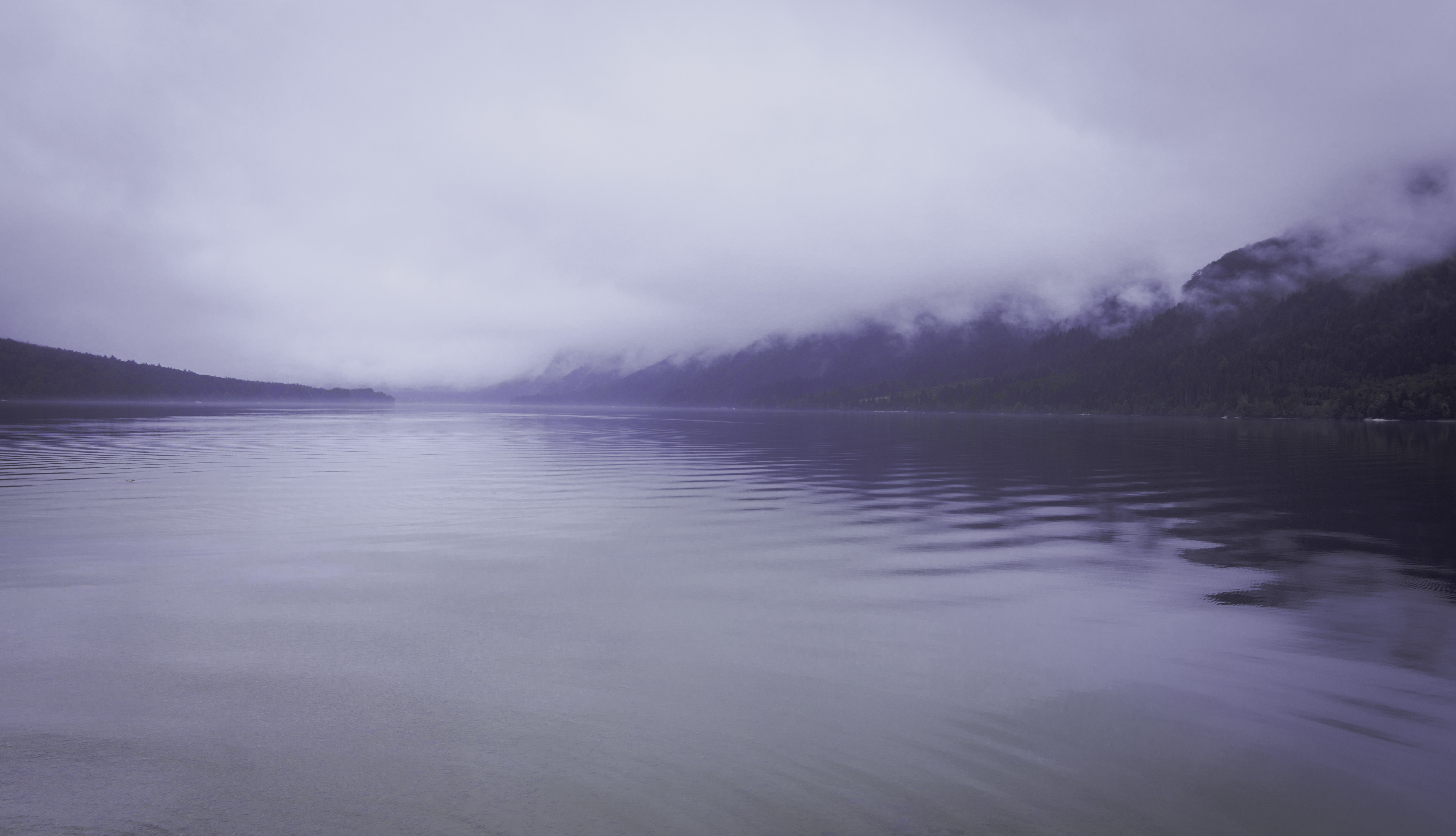 Lake Kreda, Slovenia